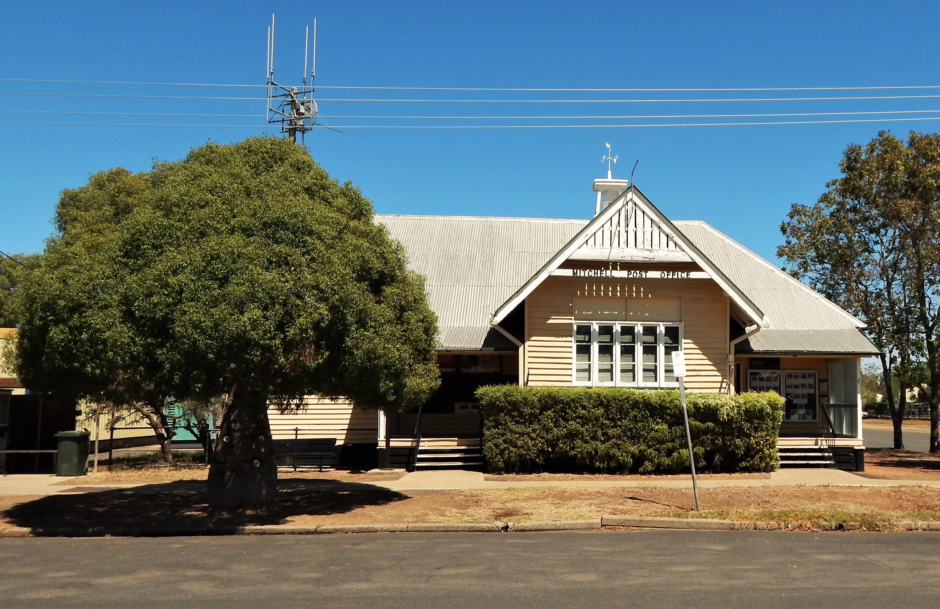 The post office in Mitchell, Queensland